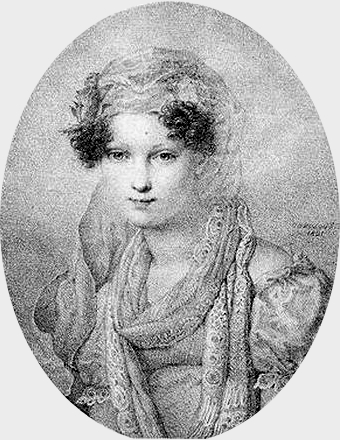 Portrait of Mariya Rayevskaya